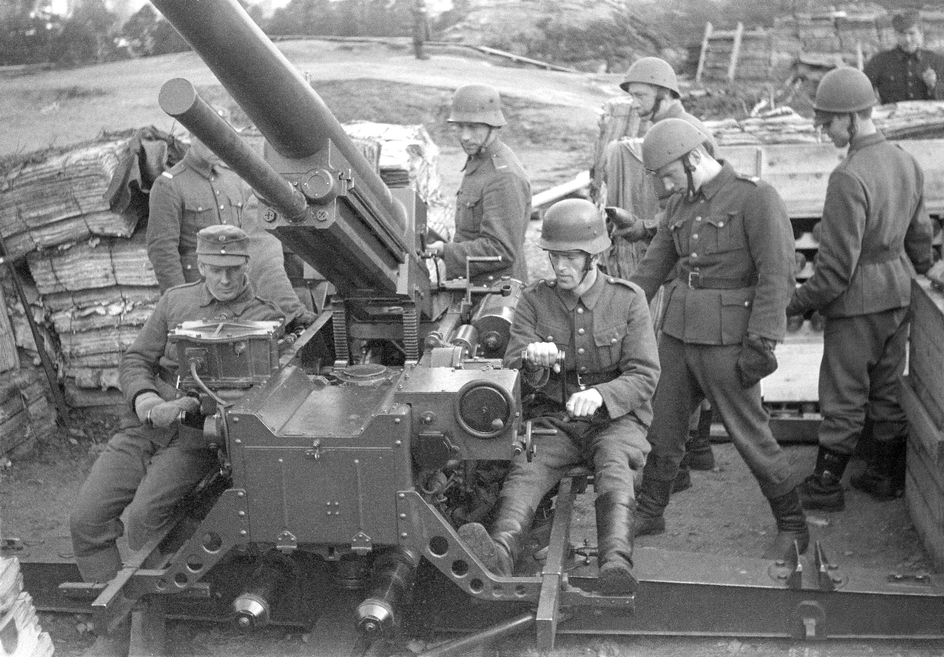 Czechoslovak 7.5 cm kanon PL vz. 37 used by the Finnish army. Finnish designation of gun was 75 ItK/37 SK, Skoda